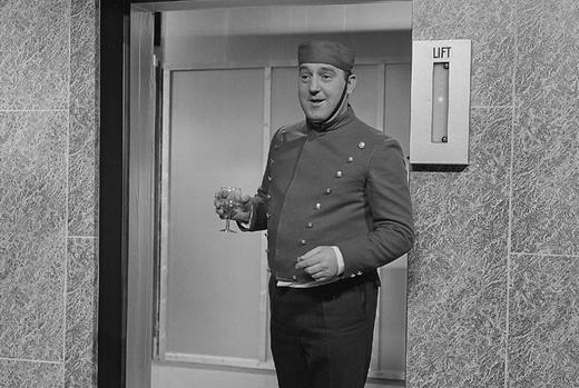 The Dutch actor Piet Bambergen (3 March 1931 – 15 June 1996)